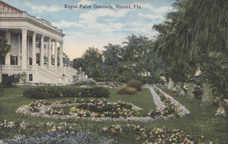 Grounds of the Royal Palm Hotel, Miami, Florida Wats up